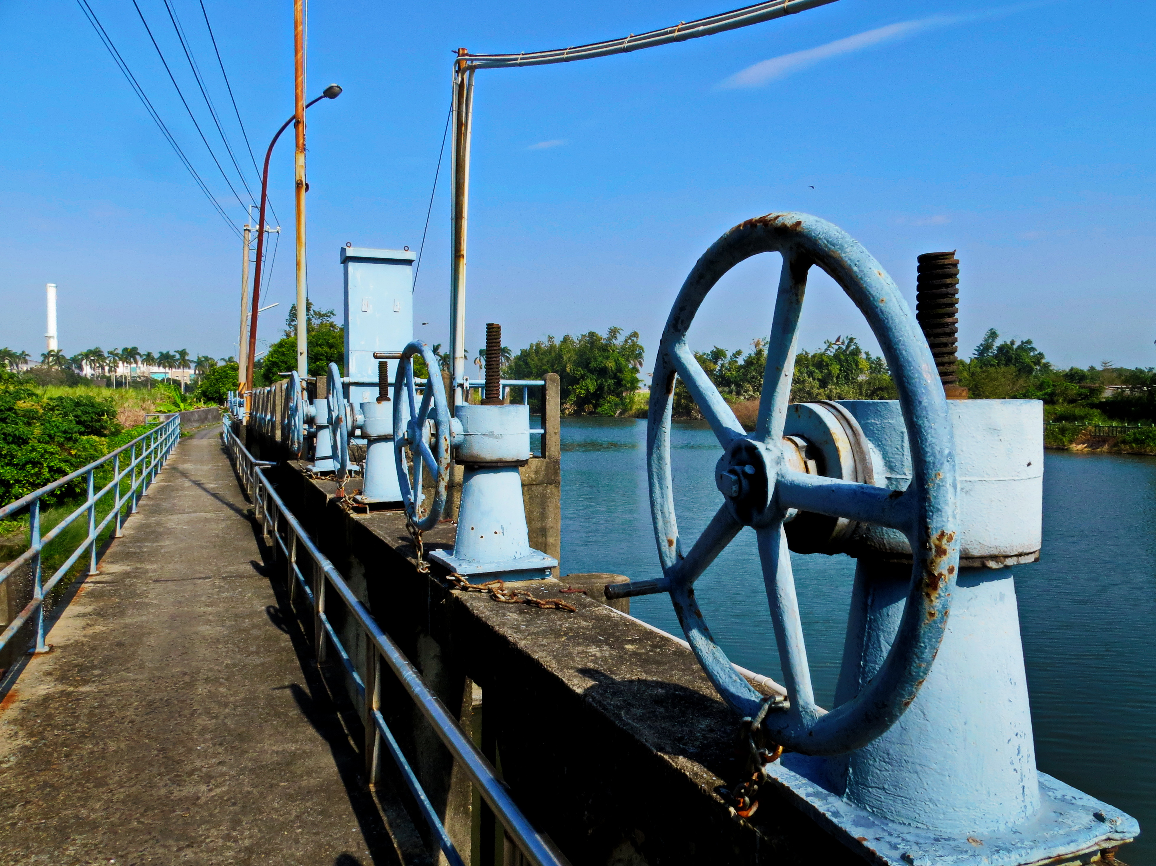 Water conservancy facilities, Dalin, Chiayi, Taiwan.